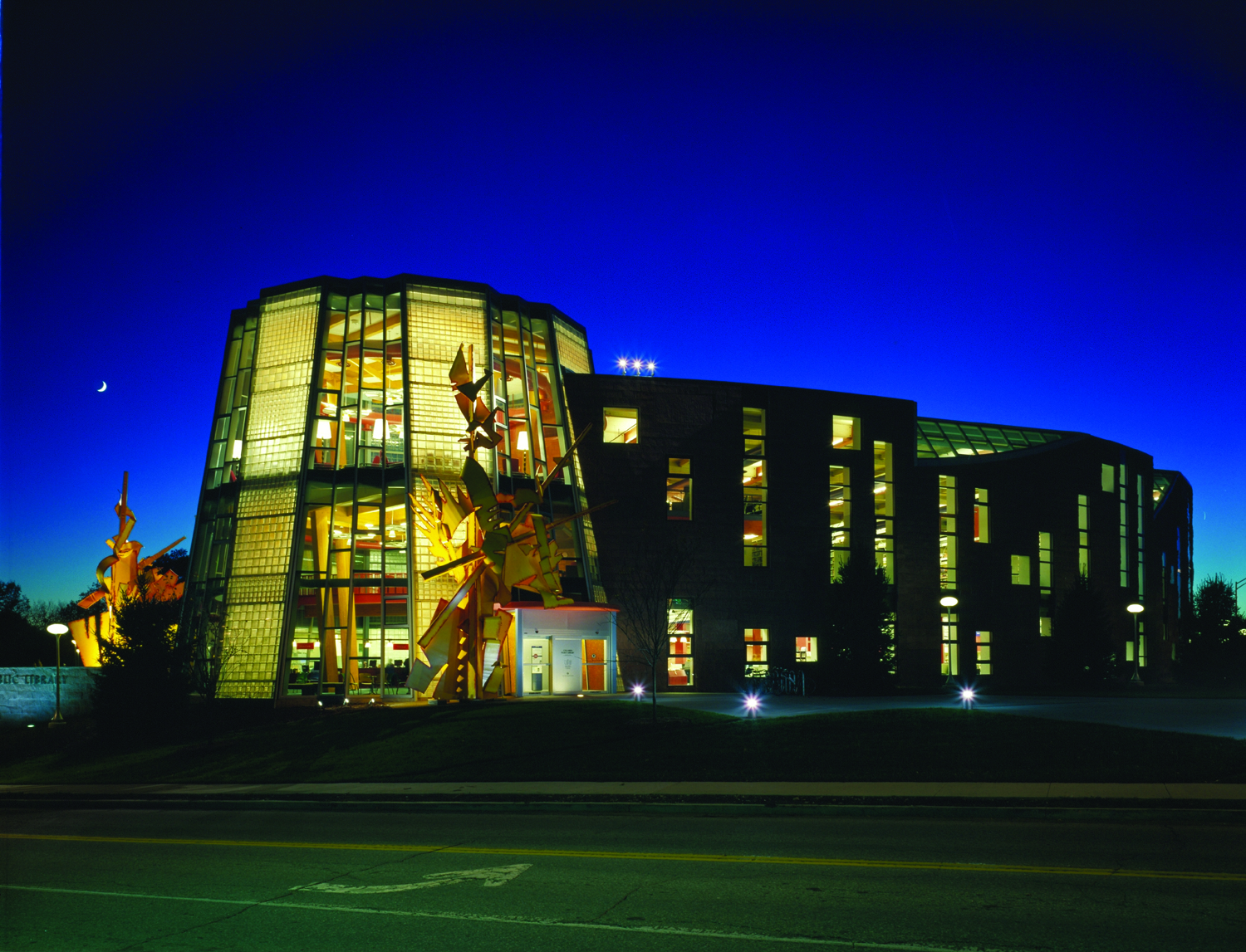 Columbia Public Library Exterior